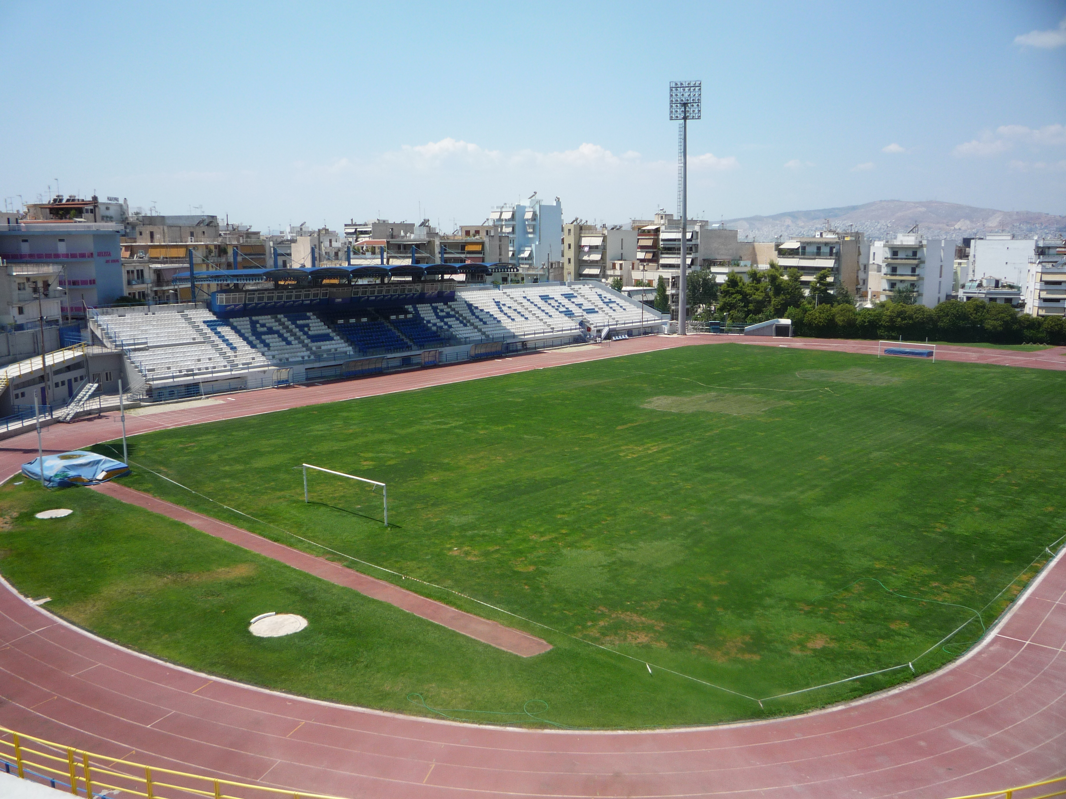 Kallithea Municipal Stadium "Grigoris Lambrakis"